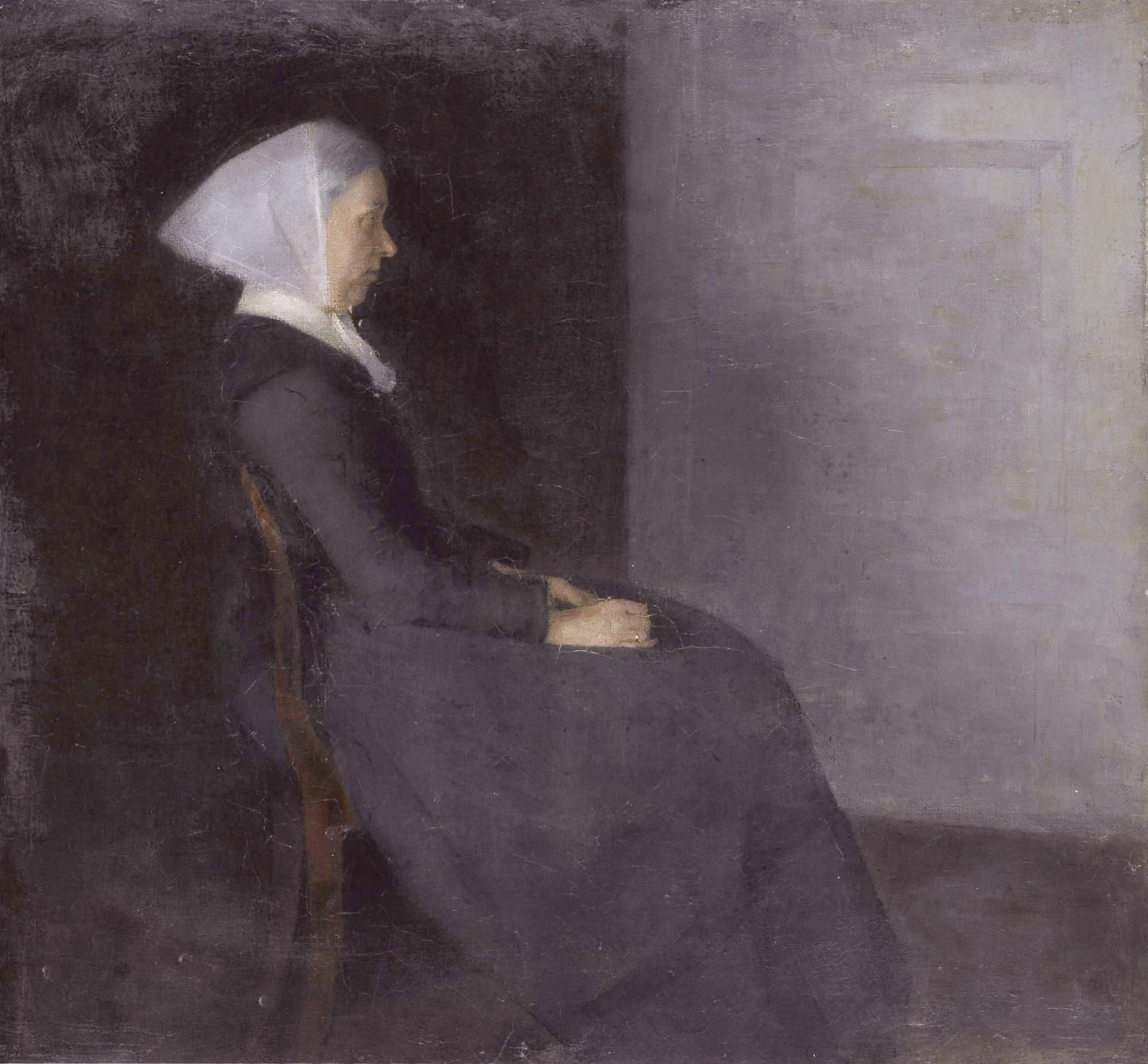 Frederikke Amalie Hammershøi, née Rentzmann (1838-1914), the artist's mother